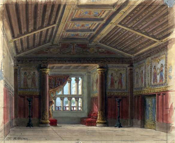 Stage design for the apartment of Didon for the premiere of Berlioz's Les Troyens à Carthage (Act 3) at the Théâtre Lyrique on 4 November 1863.